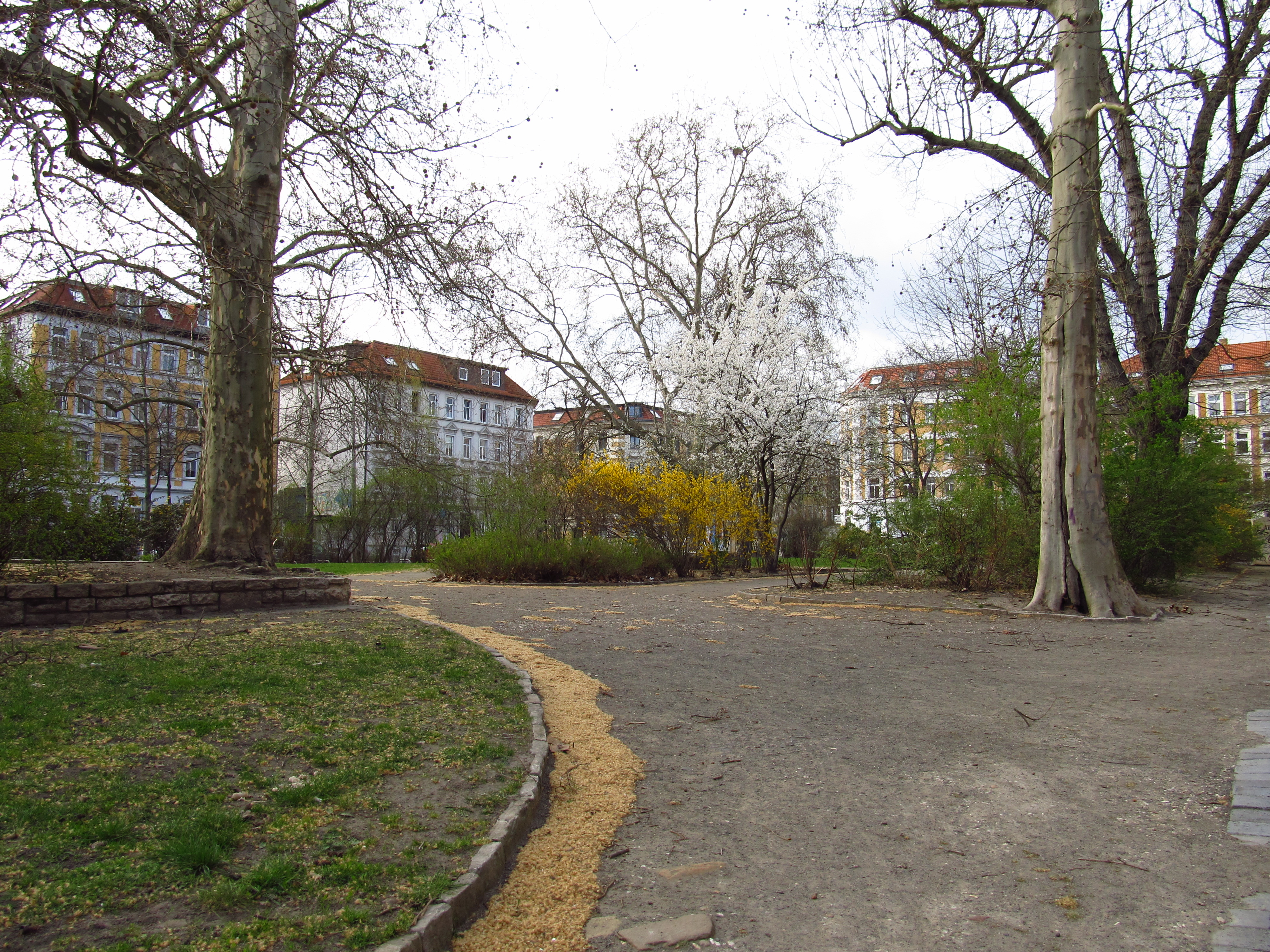 Image of the Gießerplatz in Leipzig